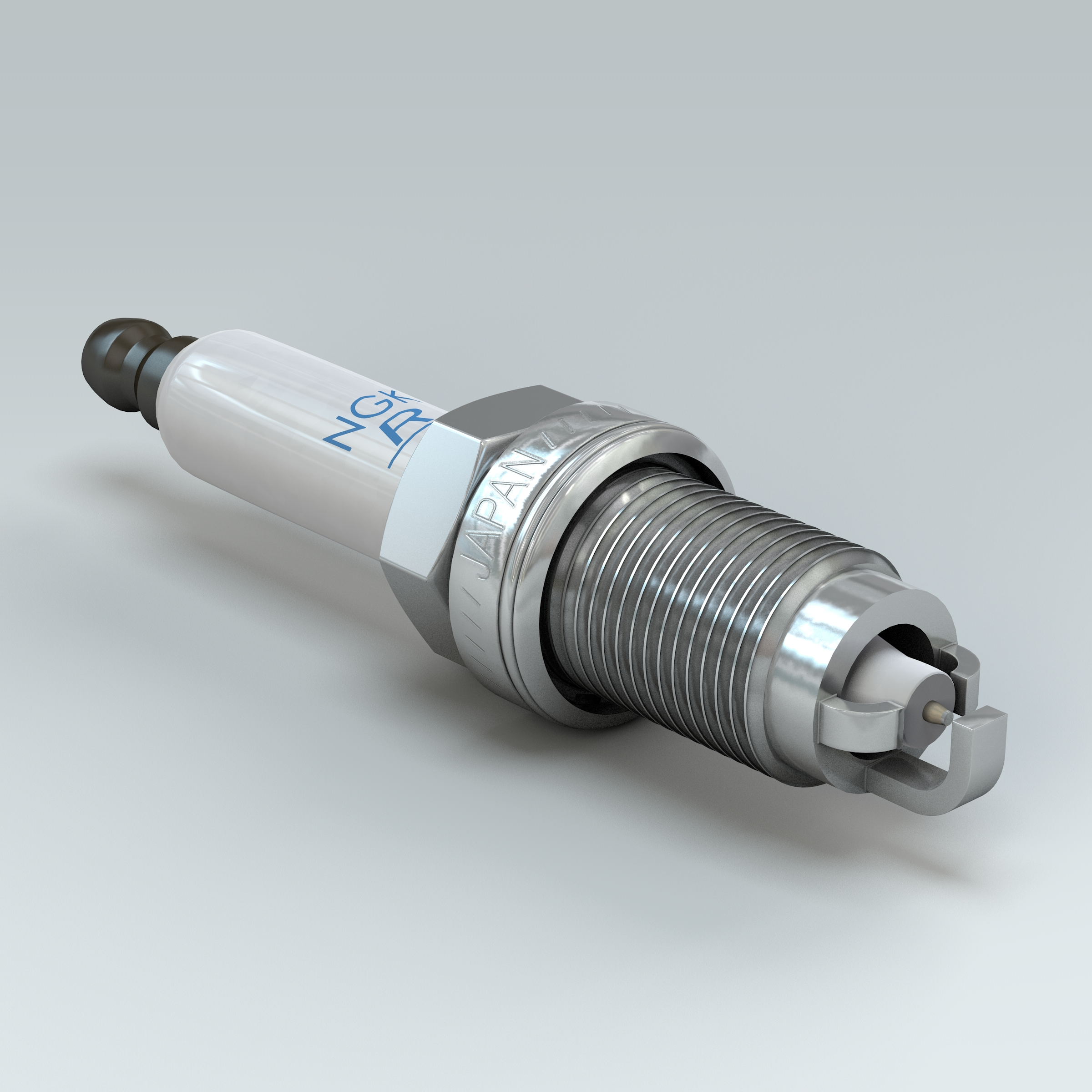 spark plug by NGK